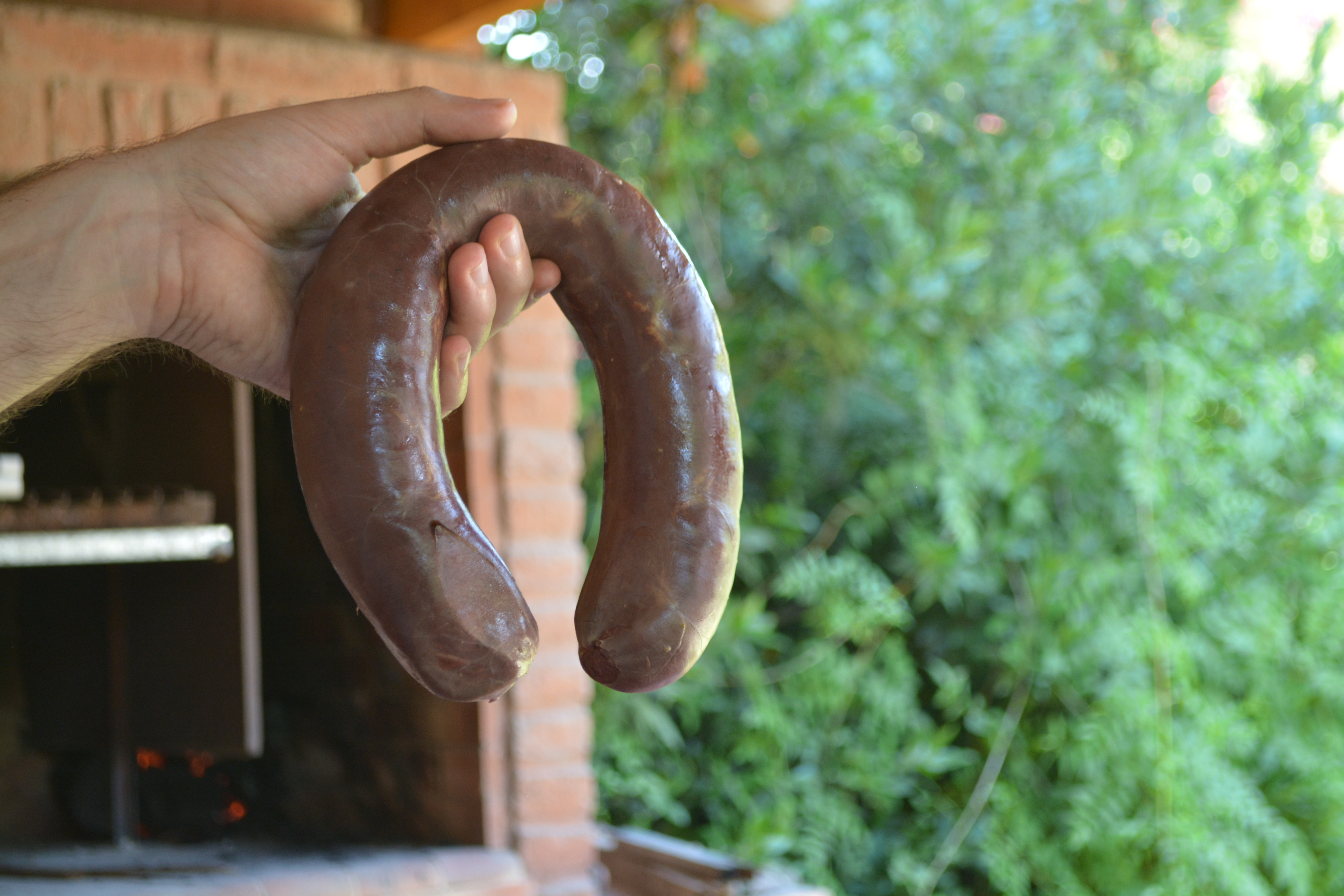 Preparing asado 1: a piece of morcilla (blood sausage).